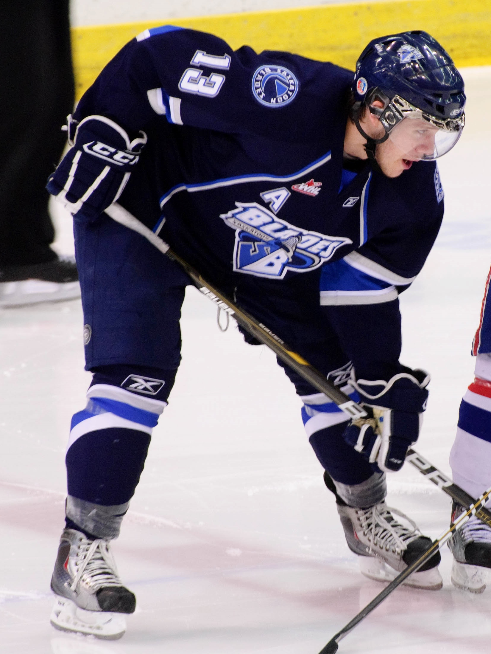 Curtis Hamilton, American-born Canadian ice hockey player